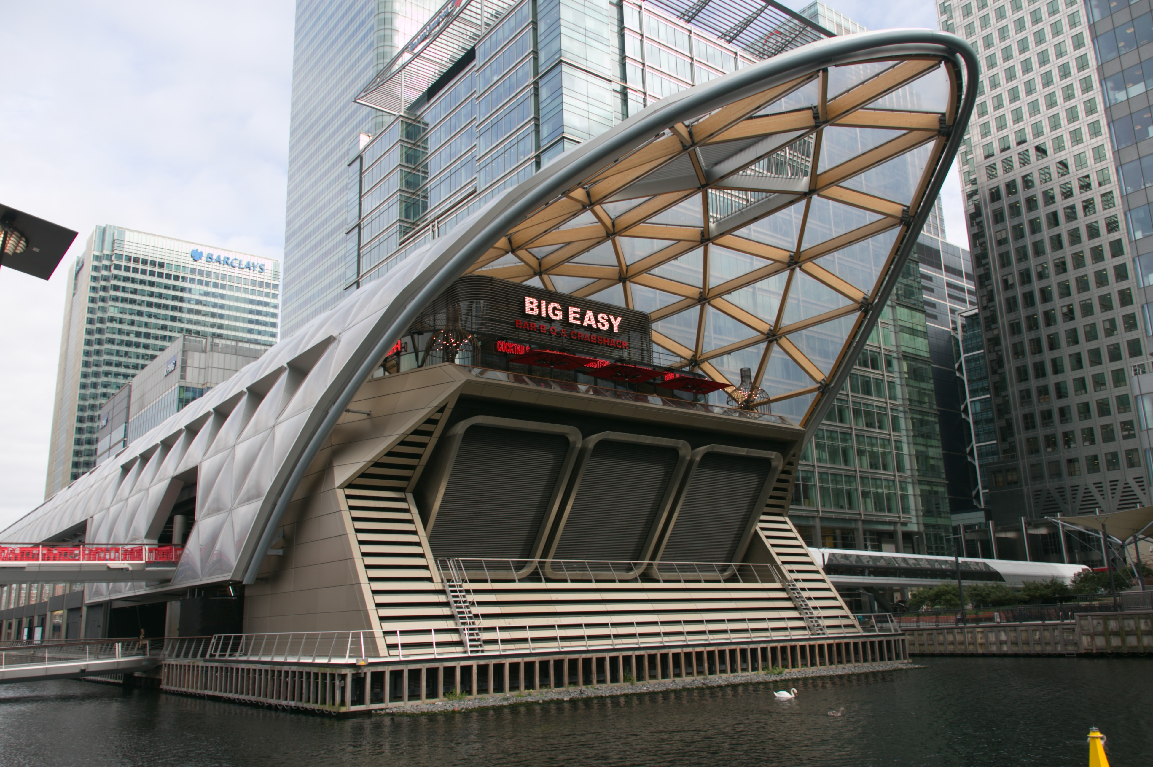 Canary Wharf railway station during construction August 2016